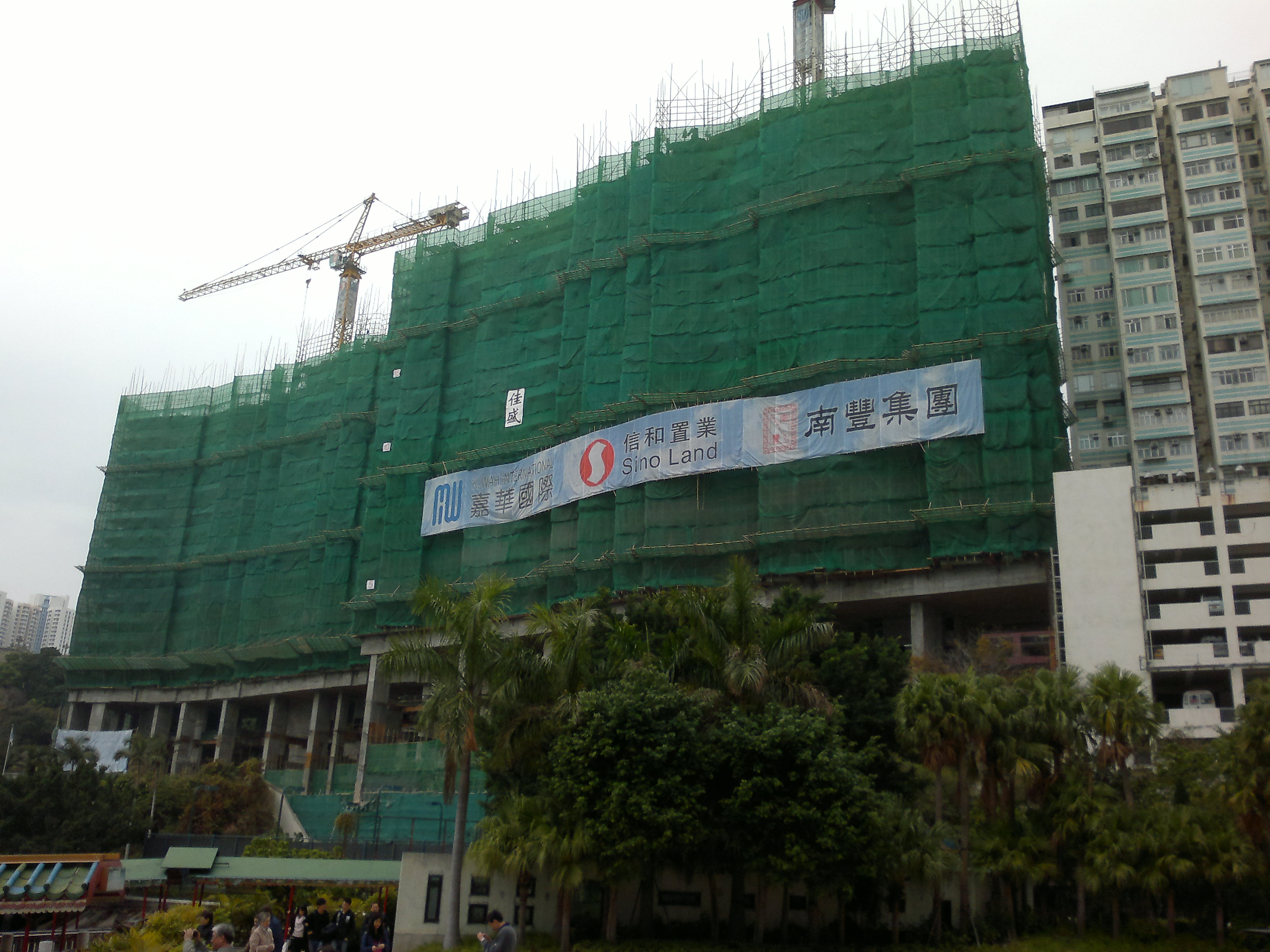 Welfare Road Residential Development